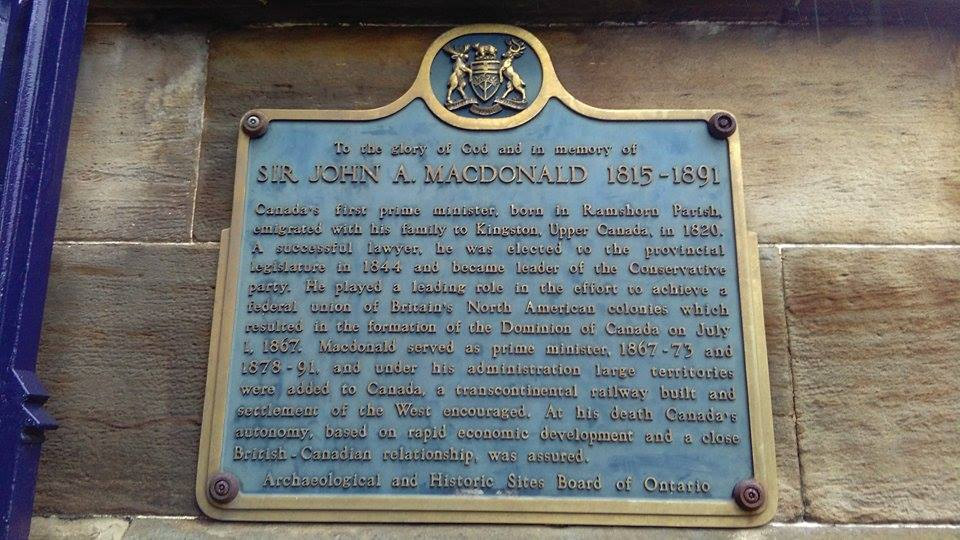 Memorial to John A MacDonald, St David's Church, Ingram Street, Glasgow